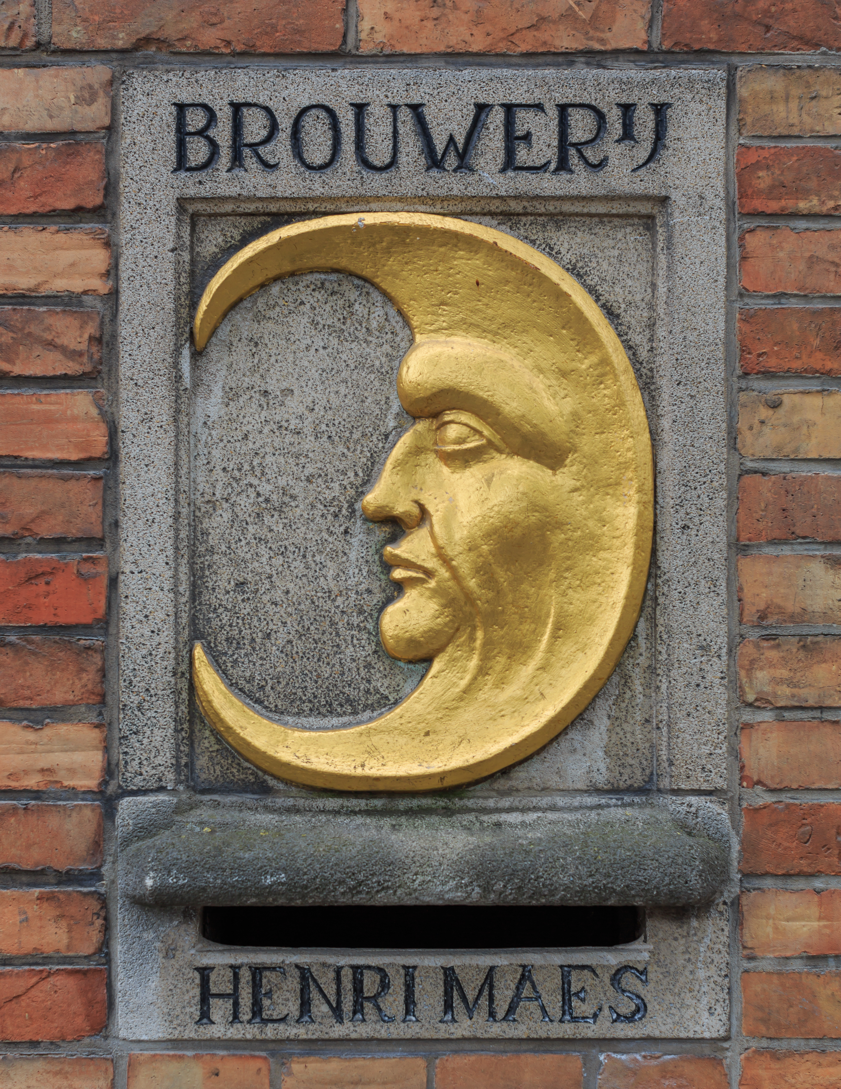 Bruges, Belgium: Door sign of "De Halve Maan brewery"